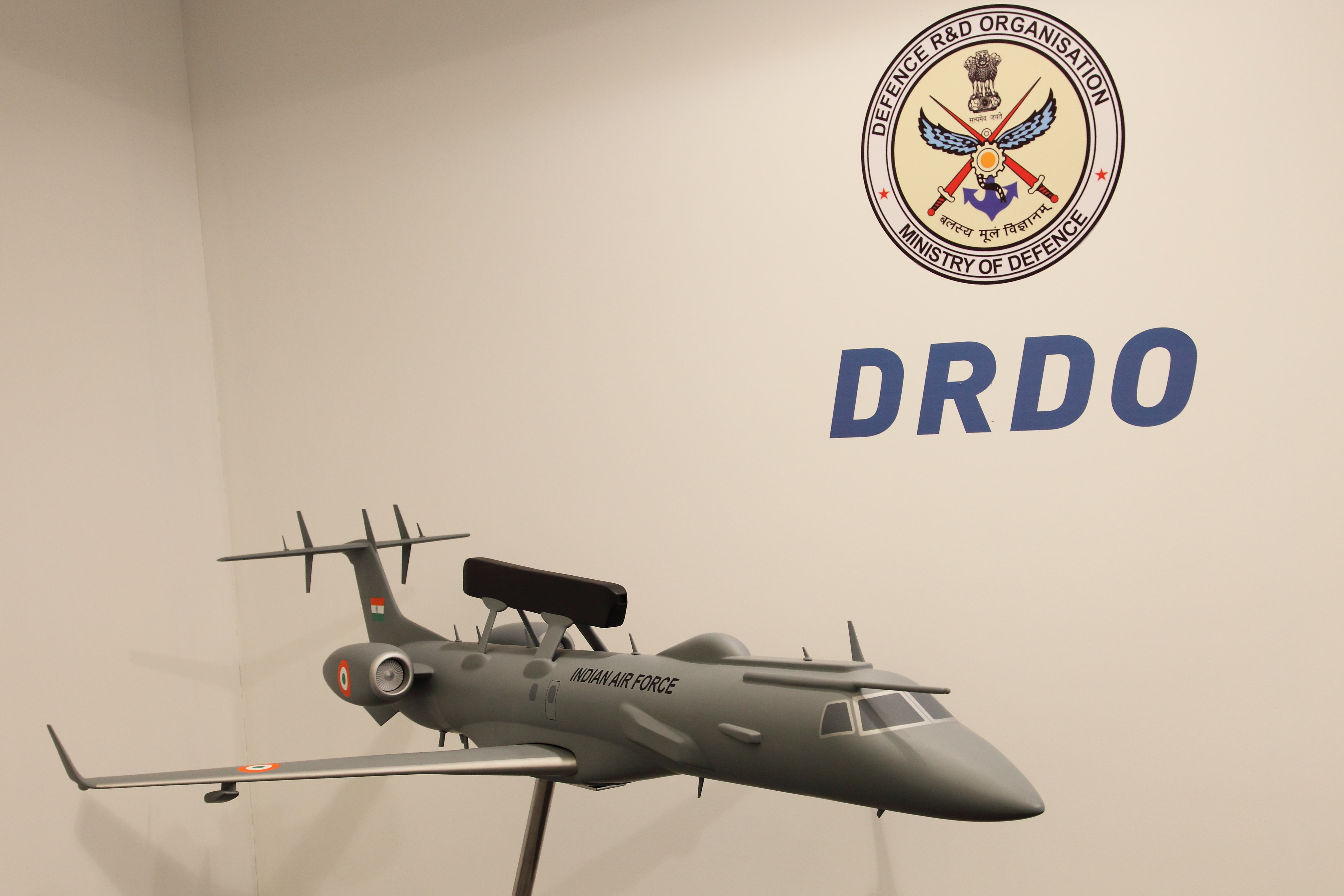 ILA Berlin Air Show 2012, Model of DRDO AEW&CS : Embraer ERJ 145i; Airborne early warning and control; Embraer (platform) DRDO’s Bangalore-based Centre for Airborne Systems (CABS) (radar); Indian Air Force; development for an Airborne Early Warning and Control (AEWAC) system; The DRDO AEWACS program aims to deliver three radar-equipped surveillance aircraft to the Indian Air Force. The aircraft platform selected was the Embraer ERJ 145.